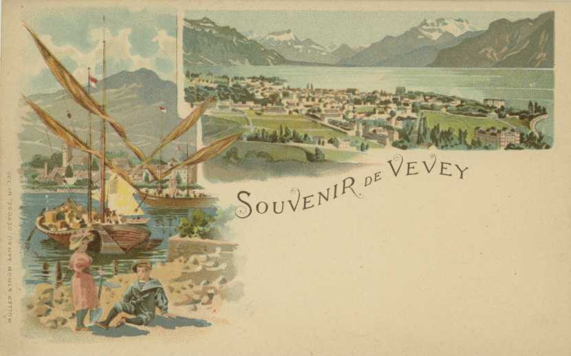 postcard of Vevey, ap. 1900 (Canton of Vaud, Switzerland), chromolithography